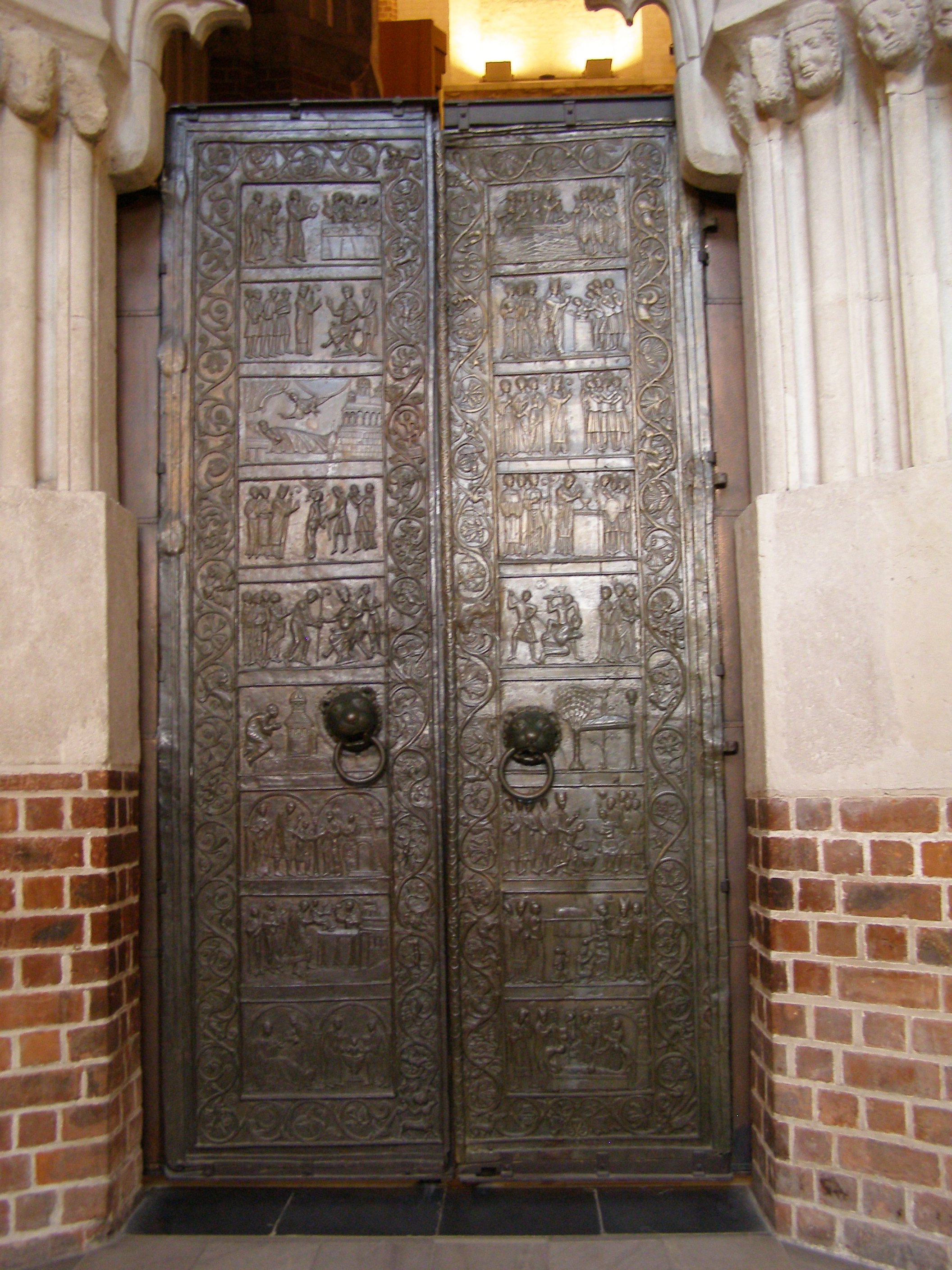 The Gniezno Door